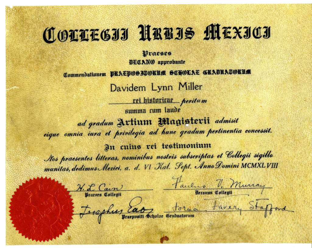 Scan from original sheepskin Diploma.